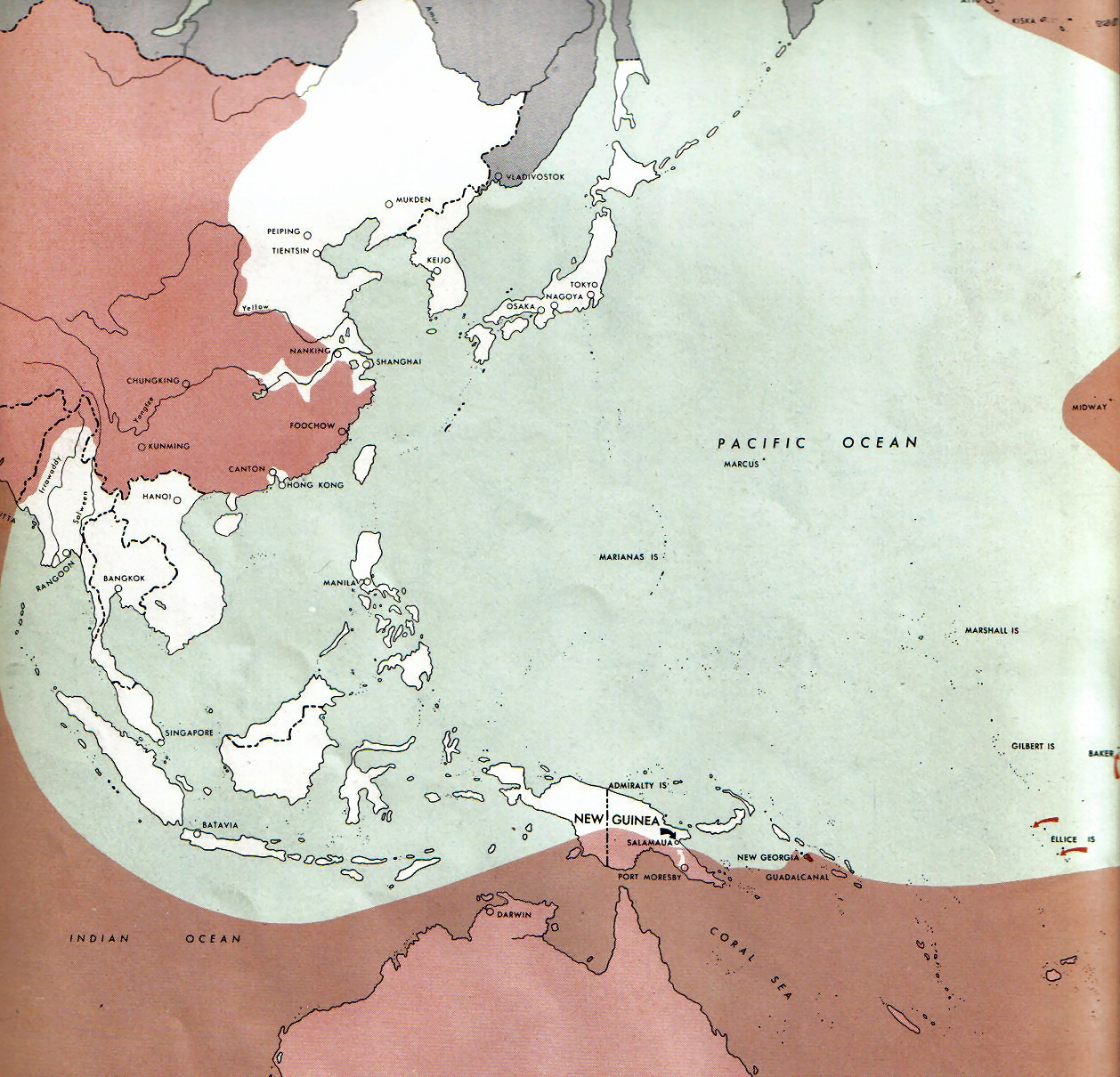 Map of the front against Japan as of 1 Sep 1943: This map is taken from the source "Atlas of the World Battle Fronts in Semimonthly Phases to August 15th 1945: Supplement to The Biennial report of The Chief of Staff of the United States Army July 1, 1943 to June 30 1945 To the Secretary of War". (See Cover, Forward and Map details)